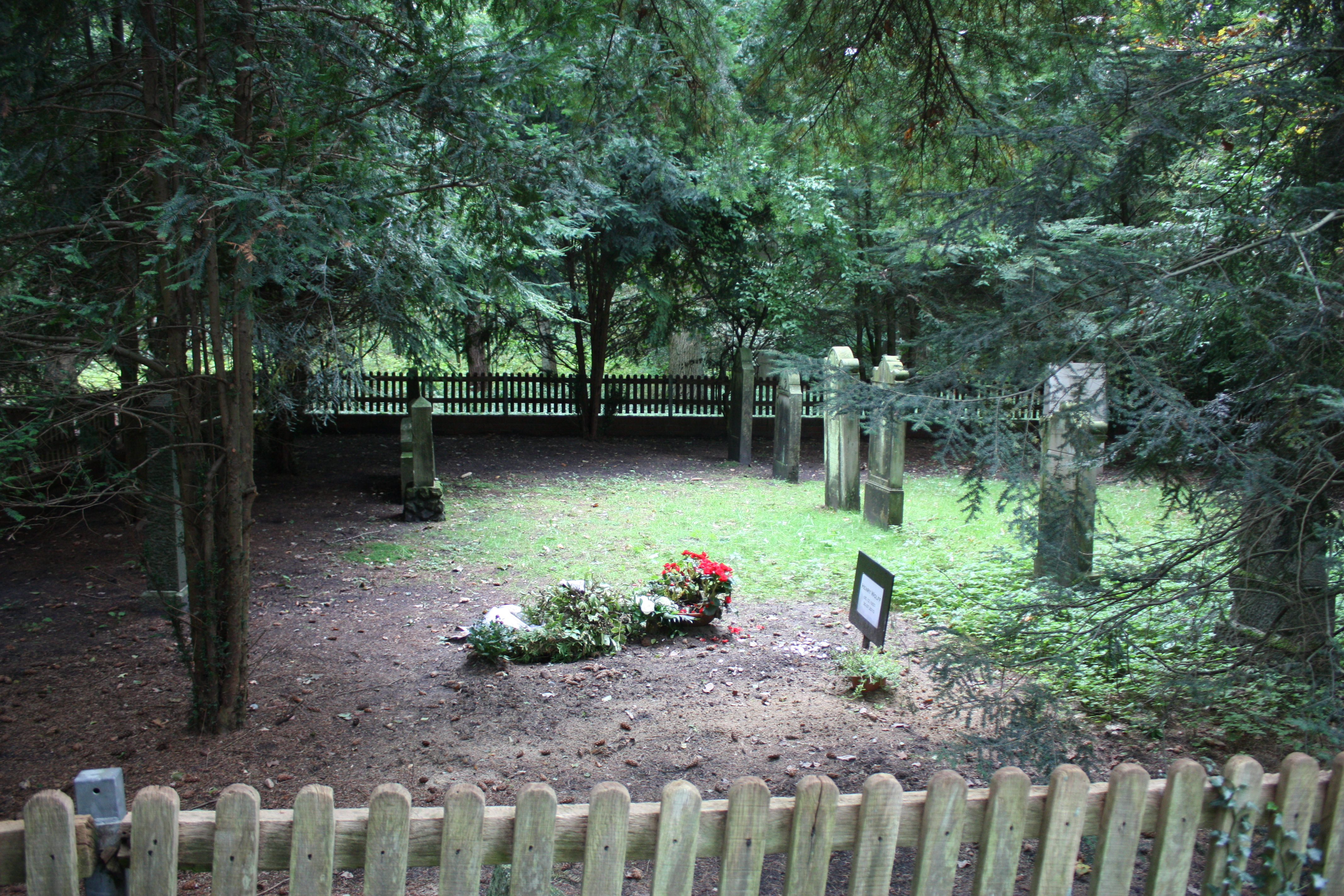 Jewish cemeteriy in Zeven; Lower Saxony